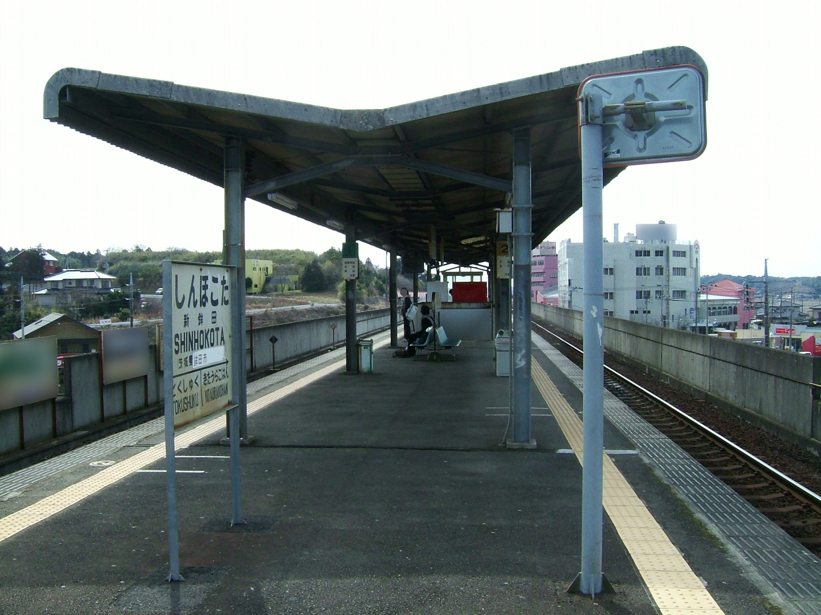 Shin-Hokota Station platform (Kashima Seaside Railway Oarai-Kashima Line)